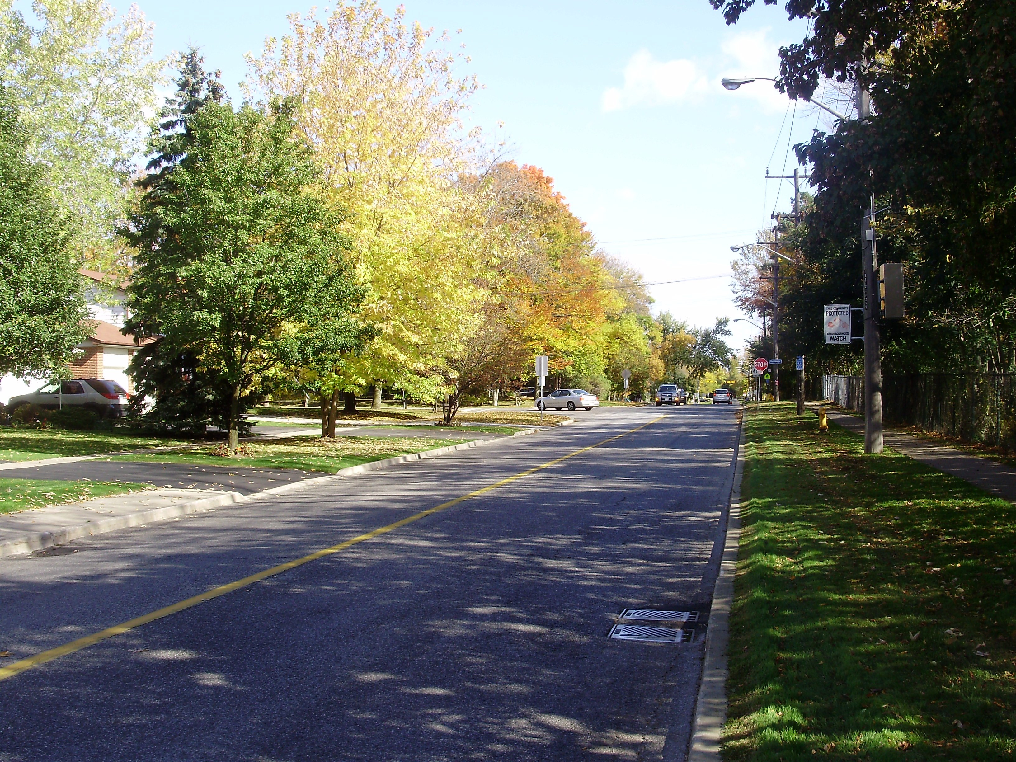 Looking east down Guildwood Parkway at Navarre Crescent in the Guildwood neighbourhood of Scarborough, Ontario, Canada.